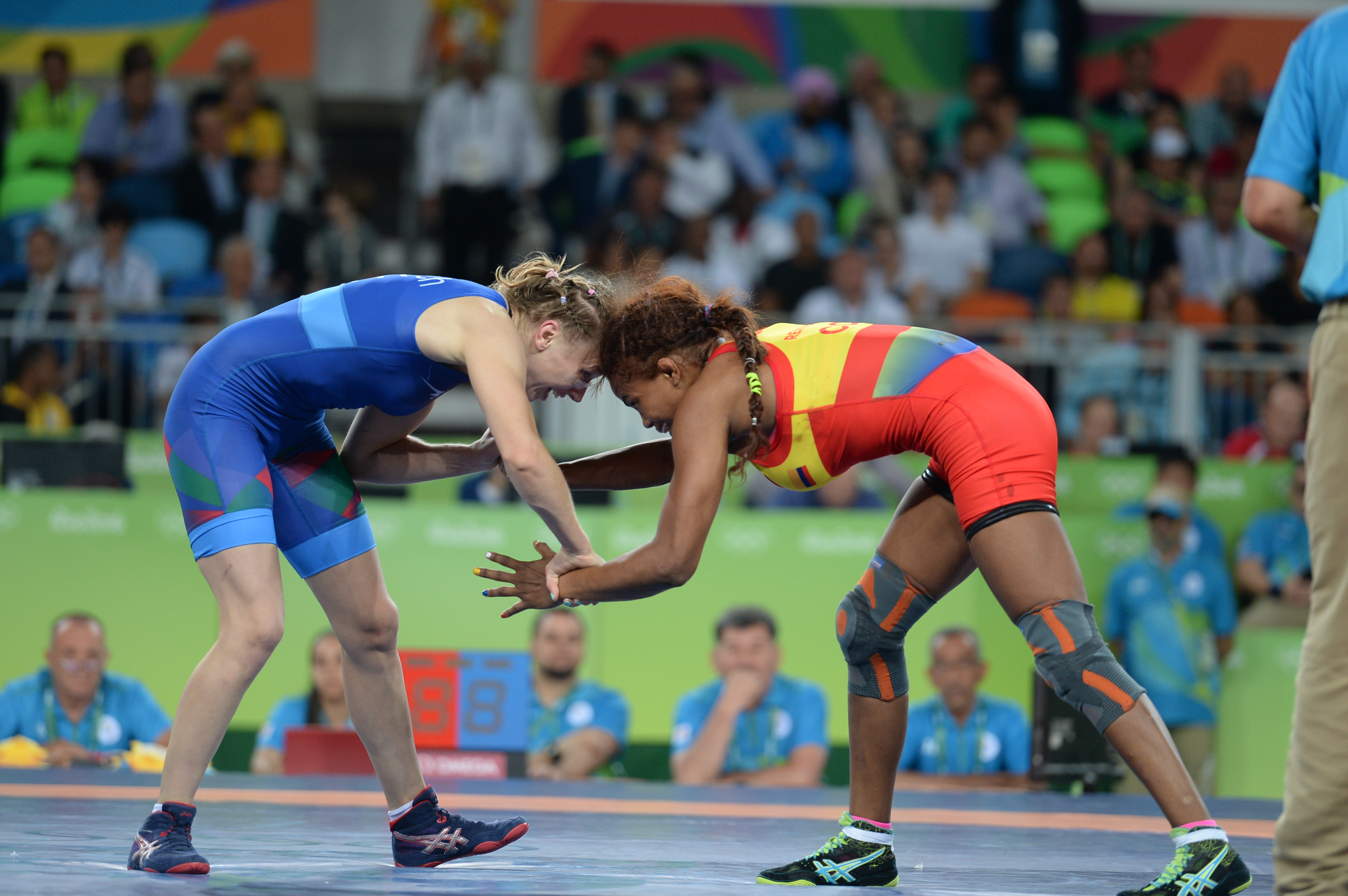 Wrestling at the 2016 Summer Olympics, Ratkevich vs Renteria